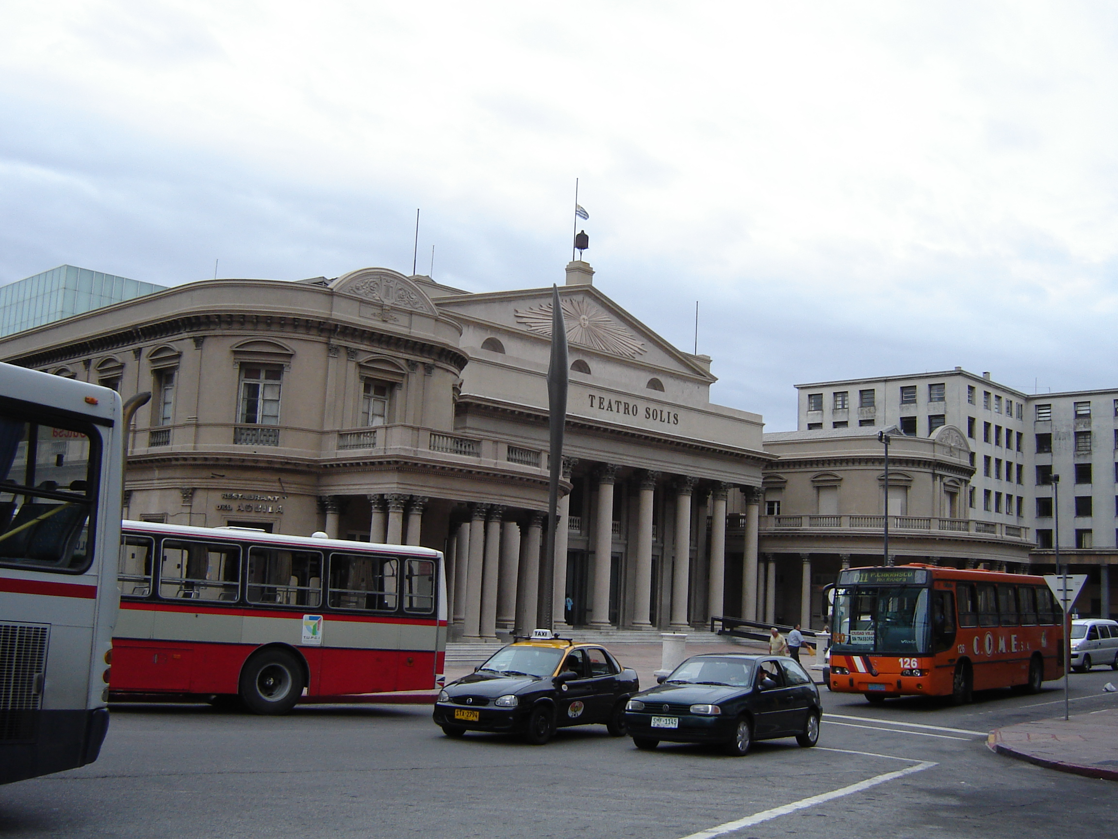 Theatre in Montevideo. Photo taken by me.